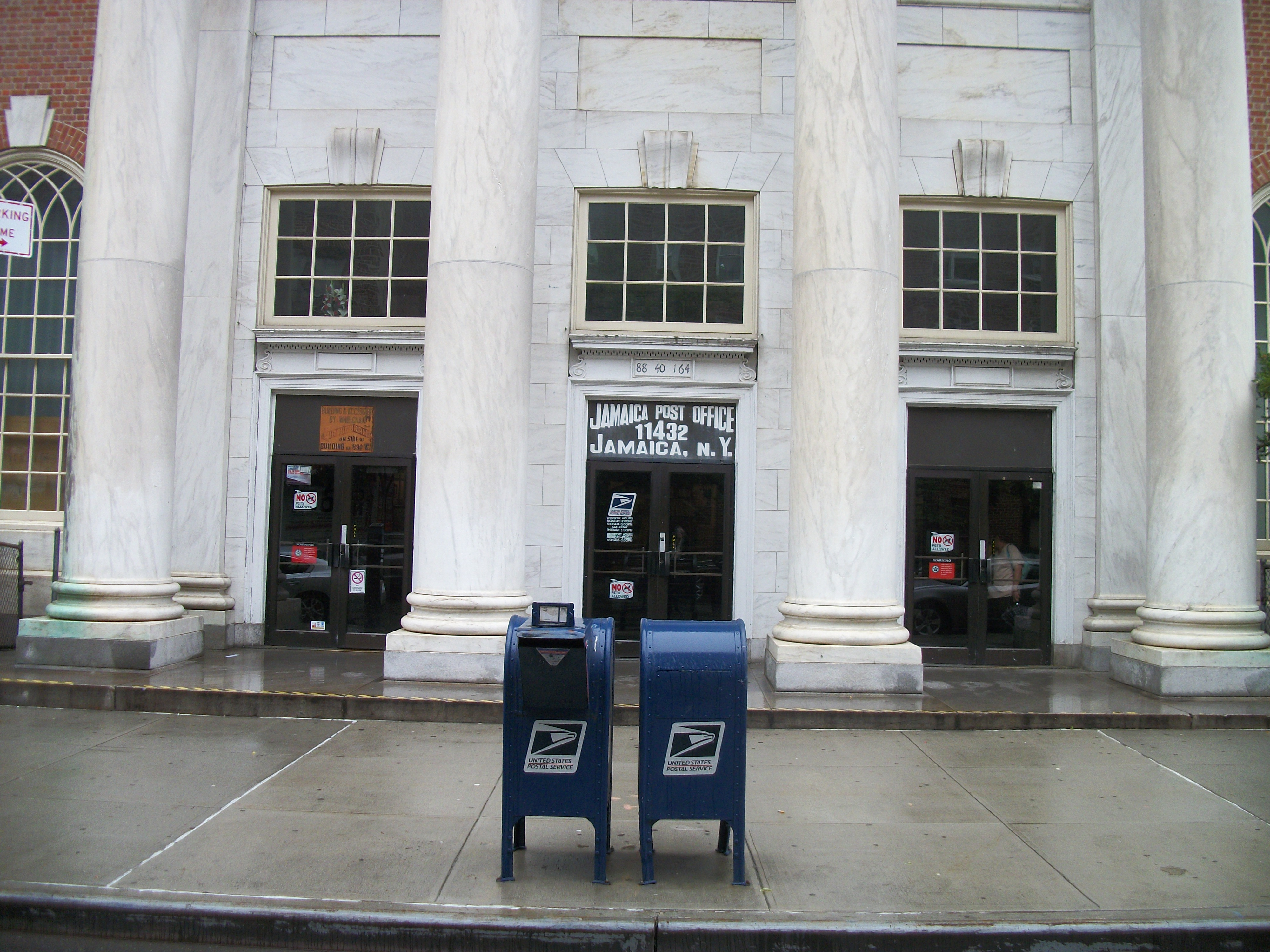 The Main Post Office in Jamaica, Queens, New York City. Details to come later.